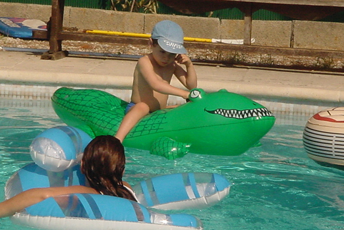 Photography